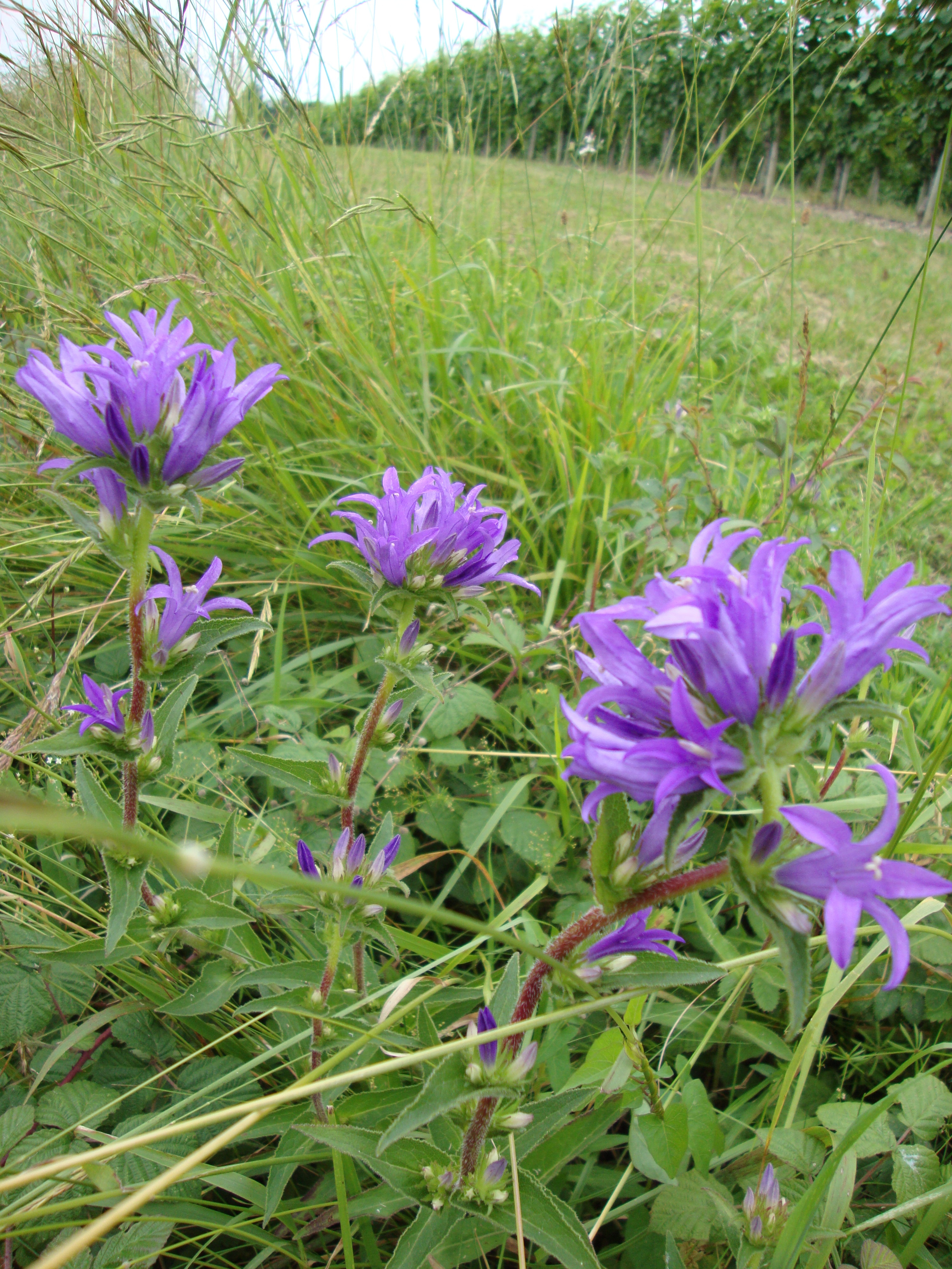 Estialesq (Pyr-Atl, Fr) landscape with flowers